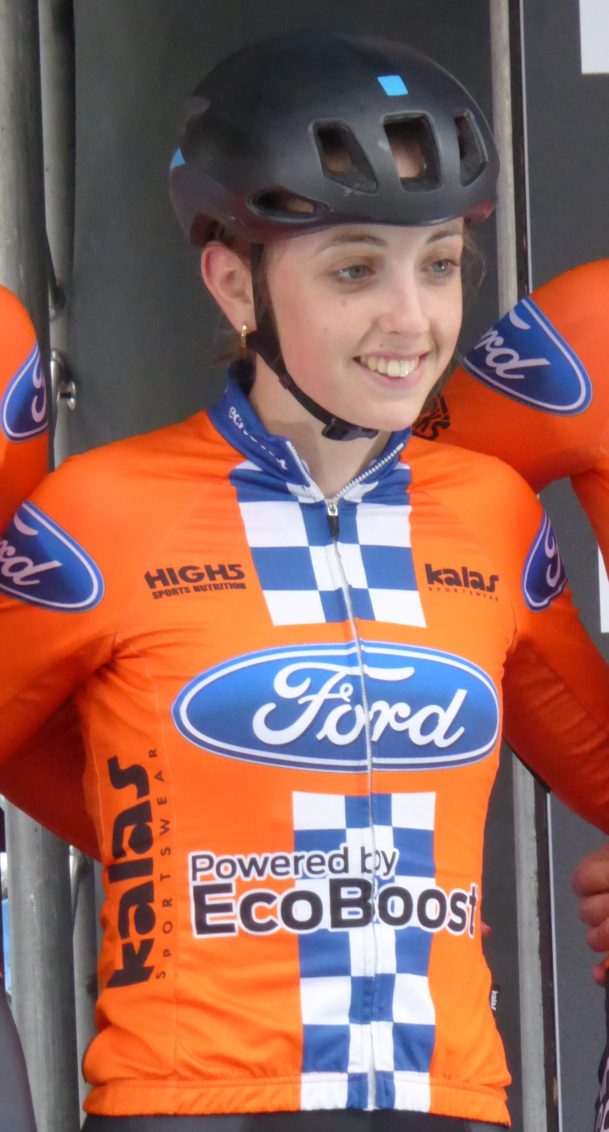 Beth Hayward (Team Ford EcoBoost), prior to Round 7 of the Matrix Fitness GP Series in Motherwell, on 23 May 2017.